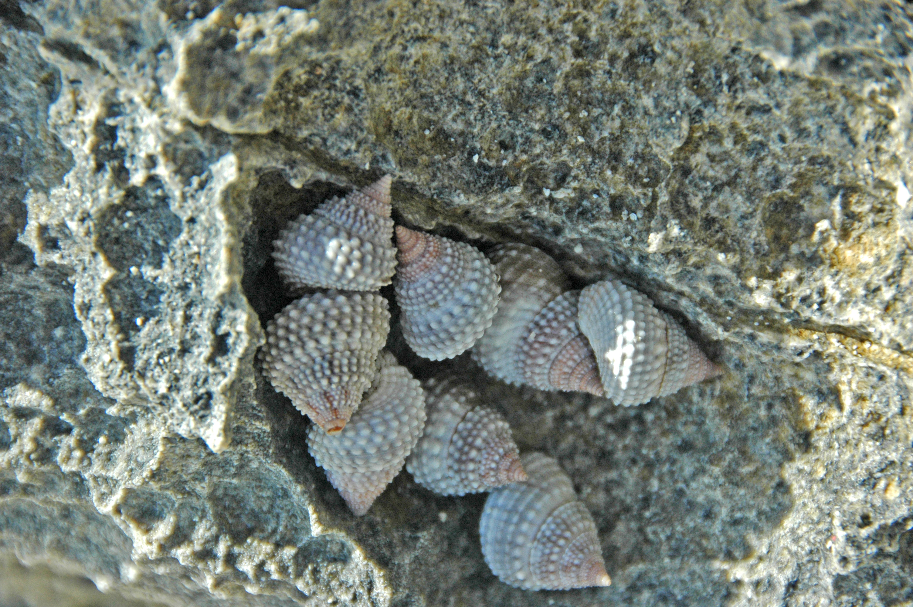 Tectarius muricatus (Linnaeus, 1758) - beaded periwinkle snails on phytokarst. These snails are on a phytokarst surface of aragonitic calcarenite limestones of the Hanna Bay Member (upper Rice Bay Formation, middle to upper Holocene). They are supratidal rocky shore bacteria/algae grazers. The jagged, pitted rock surface is phytokarst, formed by limestone being subjected to slow, partial dissolution by the life activities of bacteria and algae that coat the surfaces (= dark gray films). The snails are feeding on these biofilms by using their radulas to scrape away at the substrate. Phytokarst is one type of epikarst - limestone dissolution features at the top of the vadose zone. Classification: Animalia, Mollusca, Gastropoda, Littorinidae Locality: rocky cliffs along southern shoreline of Graham’s Harbour, just west of Bahamas Field Station, northern margin of San Salvador Island, eastern Bahamas